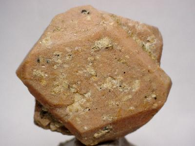 Orthoclase Locality: Karlovy Vary (Karlsbad; Carlsbad), Karlovy Vary Region, Bohemia (Böhmen; Boehmen), Czech Republic (Locality at ) Size: miniature, 3.5 x 3.5 x 2 cm Orthoclase (carlsbad-twinned) A sharp floater crystal exhibiting the classic twin form, FROM the namesake locality for the habit!